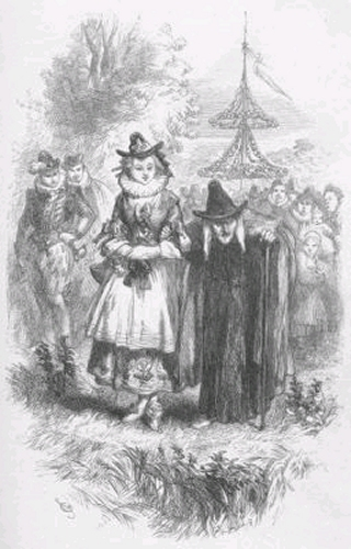 An illustration of Ann Redferne and Chattox, two of the Pendle witches, from Ainsworth's novel The Lancashire Witches, published in 1849. Ann Redferne is called Nance in the novel, and described as Chattox' grand-daughter, although she was in reality her daughter.